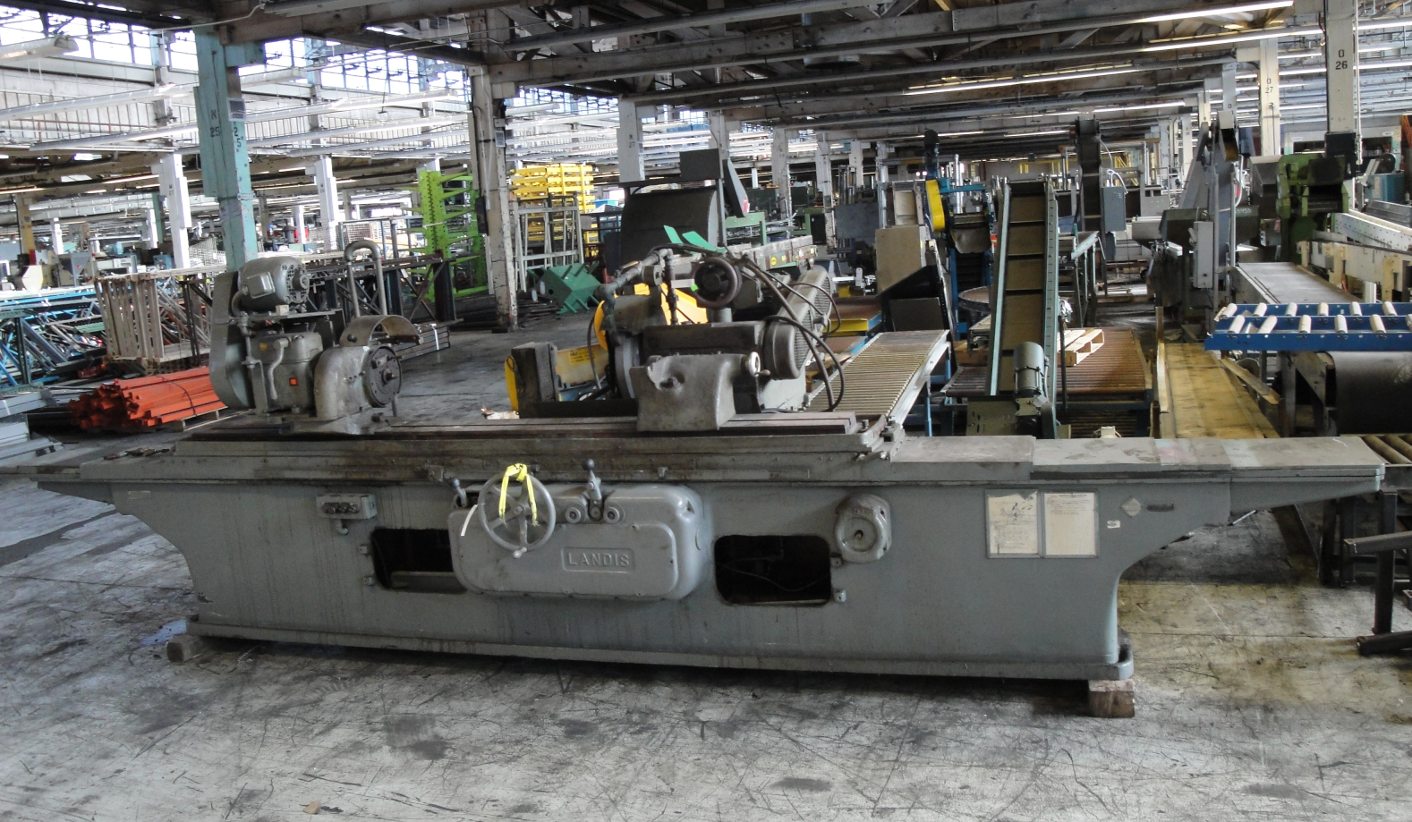 A cylindrical grinder (grinding machine) by the Landis Tool Company, of Waynesboro, Pennsylvania, USA. This company was a well-known builder of grinding machines for large-volume production of ground parts. Successor corporations exist today, such as Landis Threading Systems, which is now owned by Allegheny Technologies.